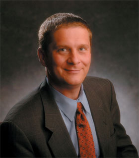 Portrait of Dr. Timothy J. Broderick, Professor of Surgery at the University of Cincinnati and NEEMO aquanaut. From